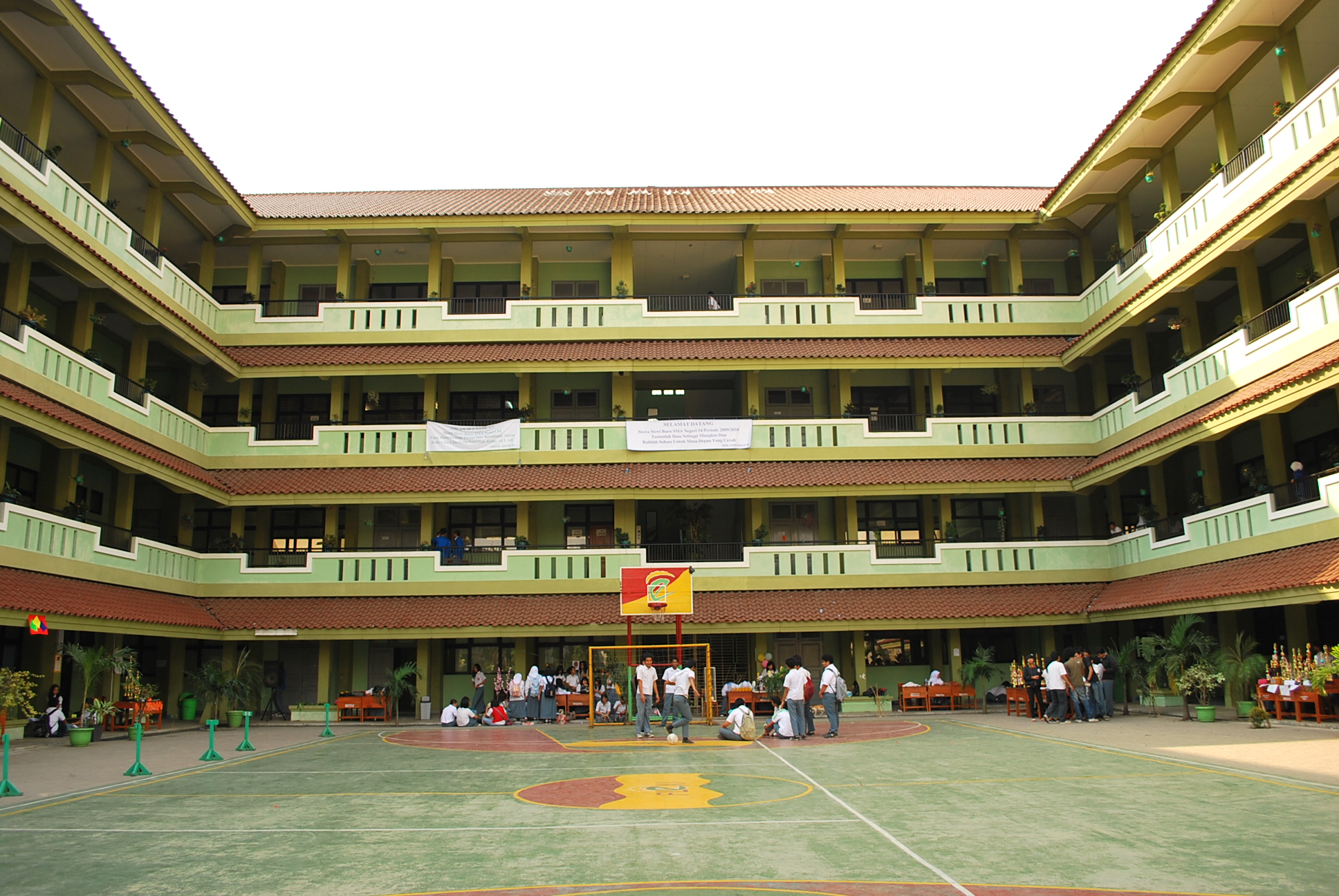 Public High School 54 in Jakarta, Indonesia